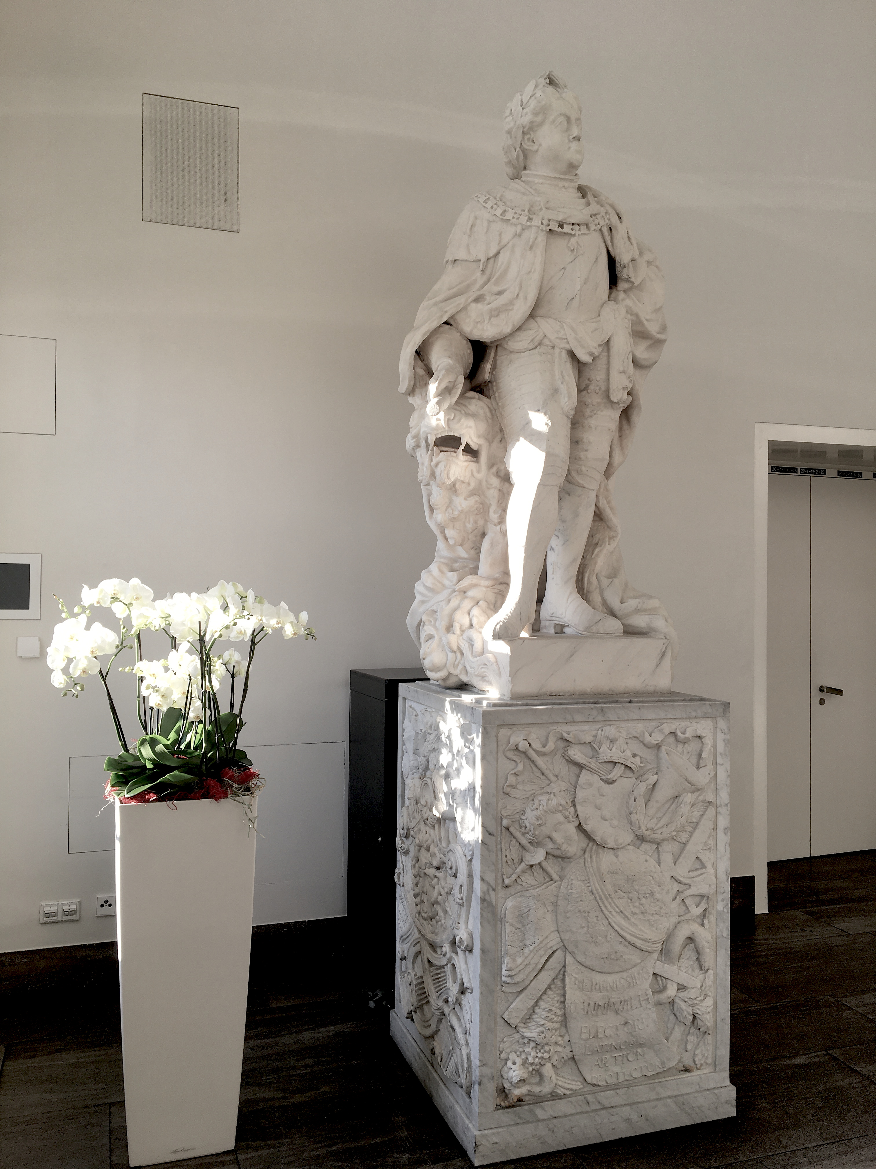 Modern interiors of the Old City Hall of Dusseldorf.